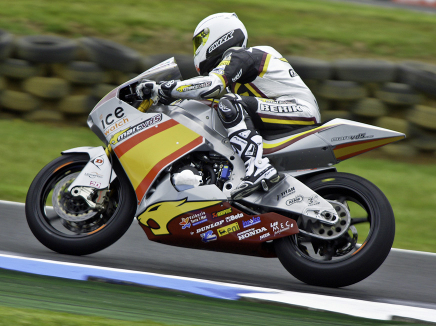 Hector Faubel 2010 Phillip Island